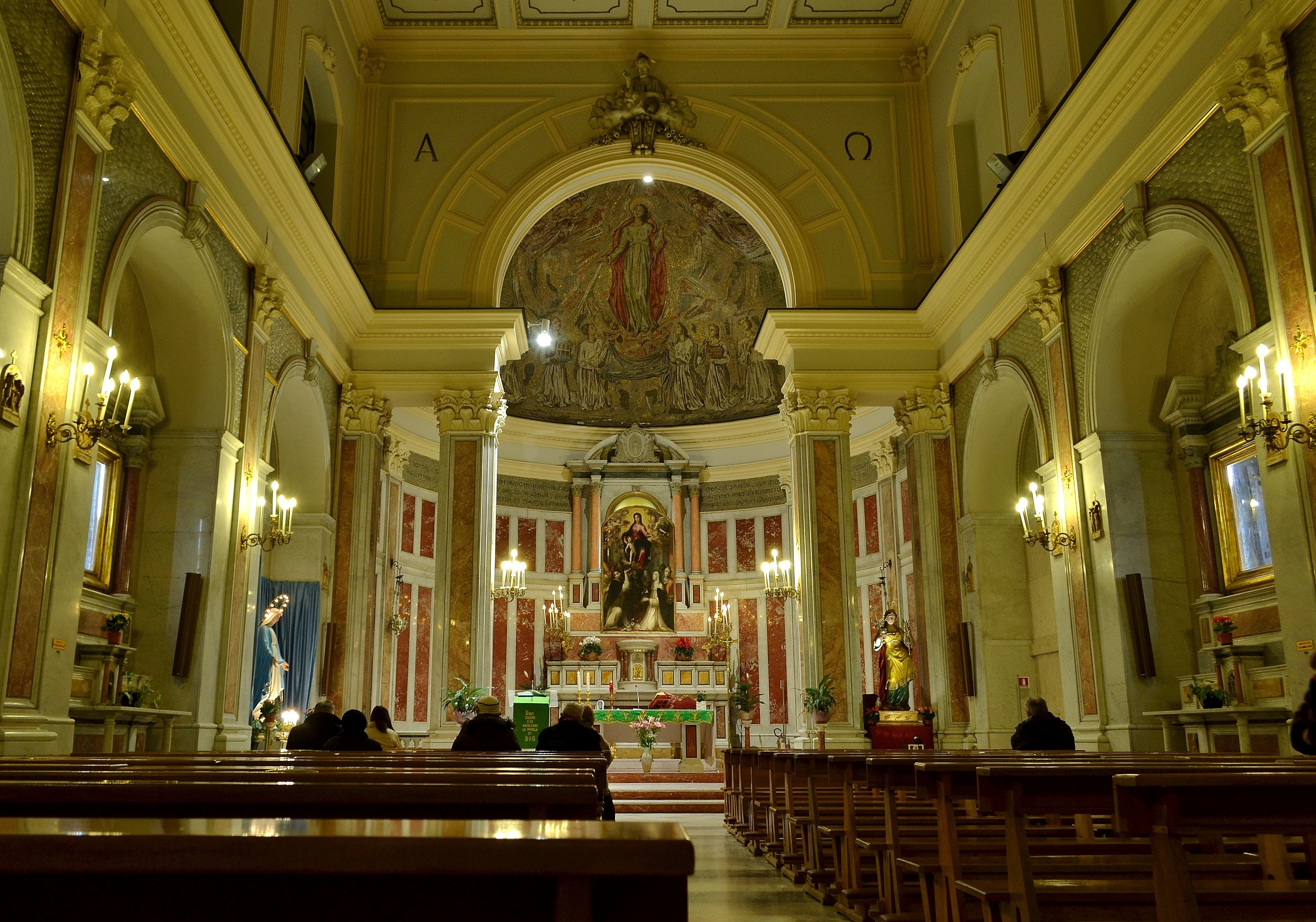 Basilica Shrine of Saint Lucia a Mare The interior of the church